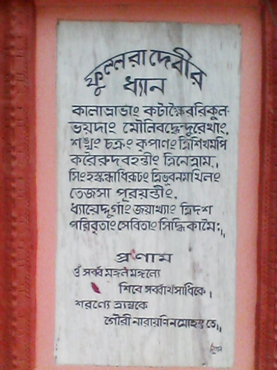 ফুল্লরা মন্দির, লাভপুর, বীরভূম